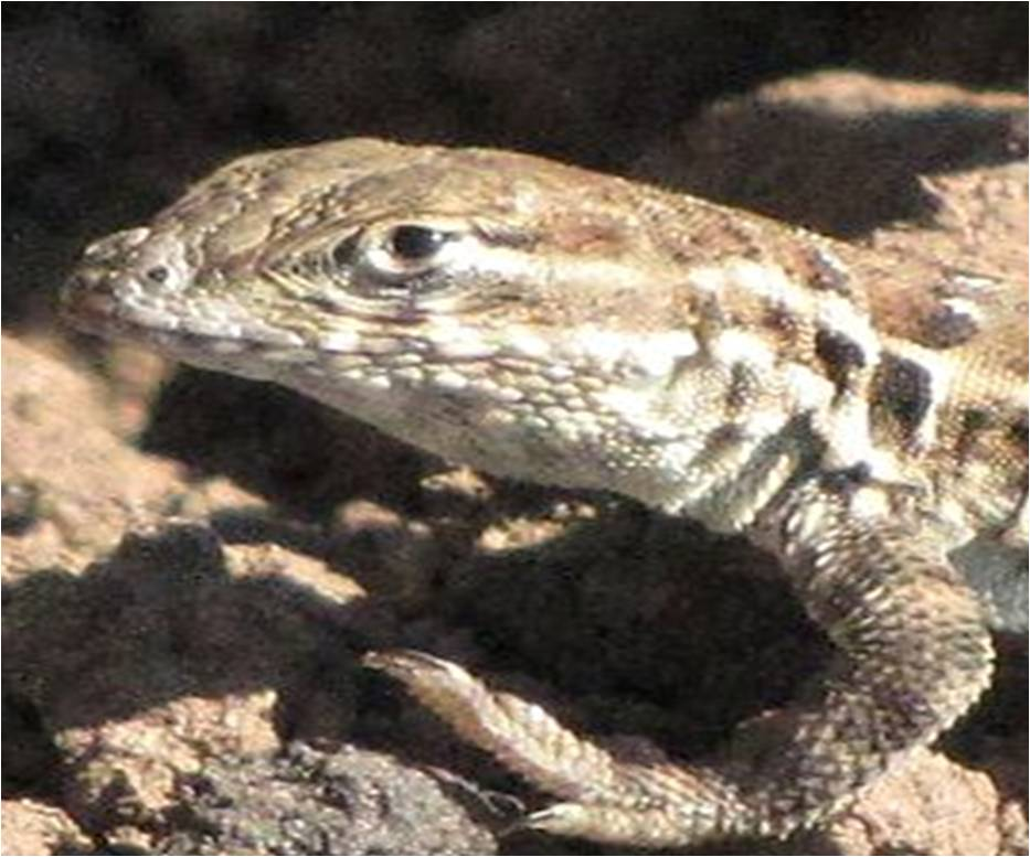 close up of side blotched lizard